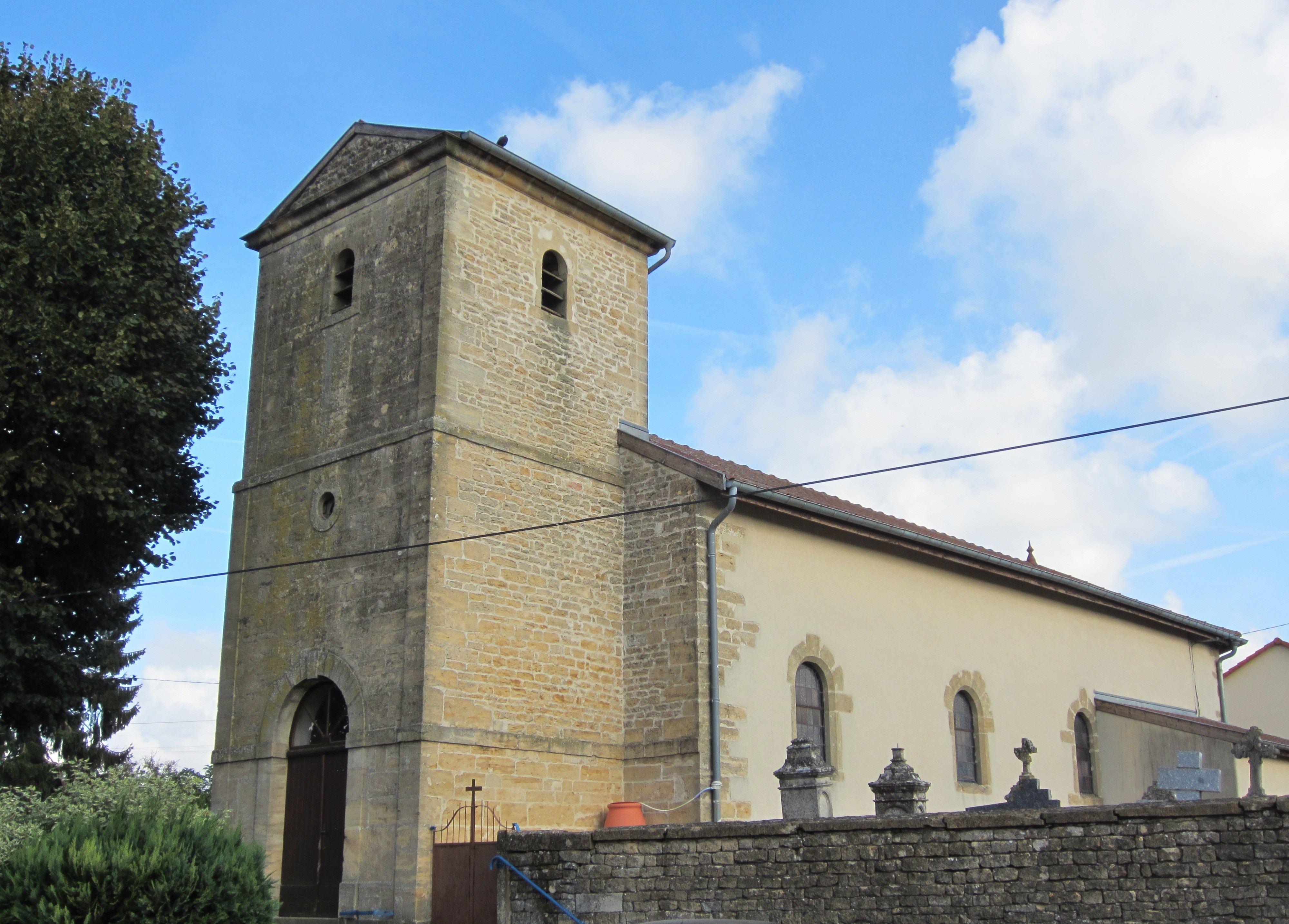 Description eglise Higny eglise Higny